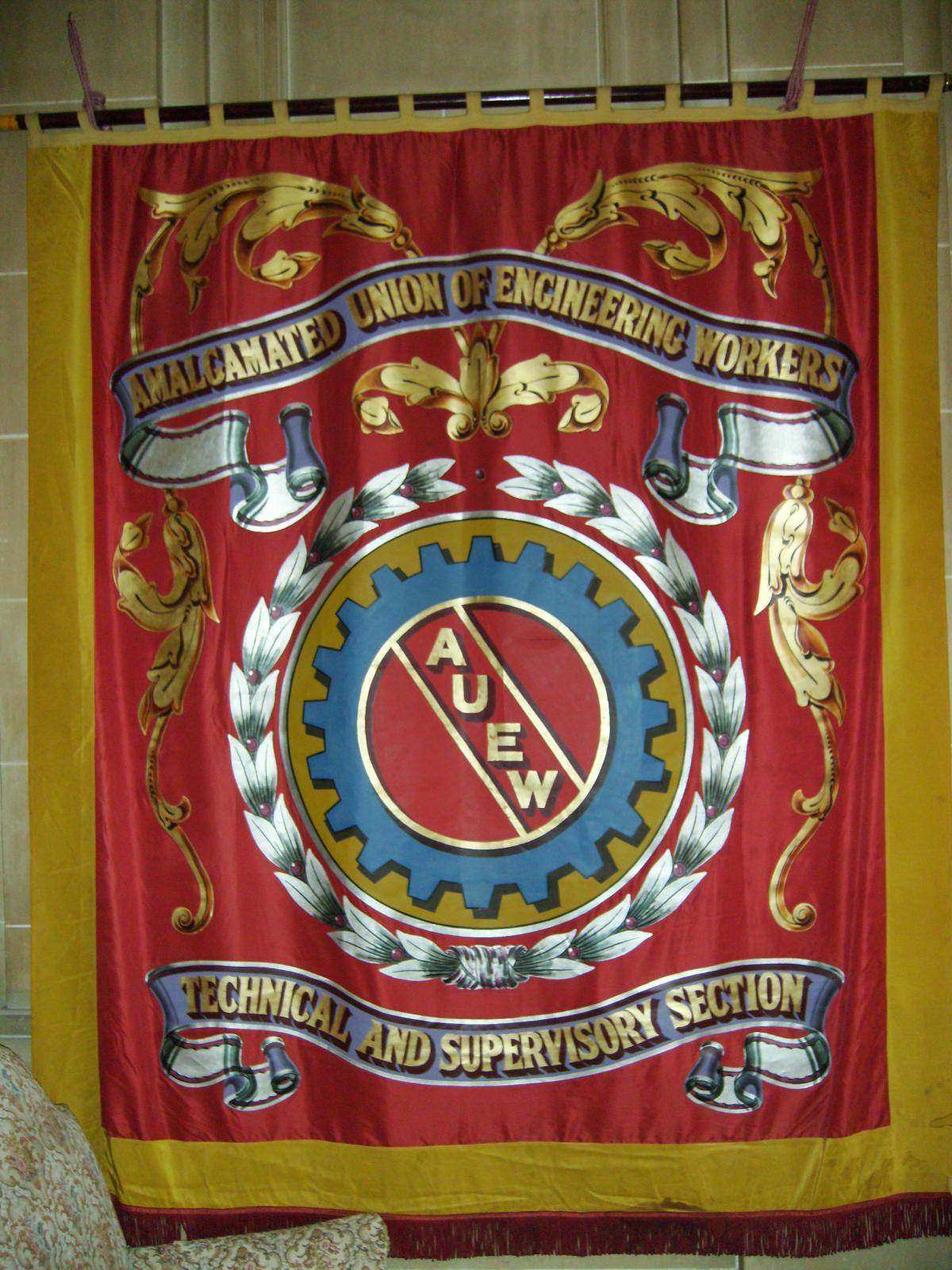 Banner of TASS (Technical and Supervisory Section) of AUEW. This banner is displayed in the entrance hall of Esher Place, one of the Unite union's training colleges. Summary Banner of TASS (Technical and Supervisory Section) of AUEW. This banner is displayed in the entrance hall of Esher Place, one of the Unite union's training colleges.